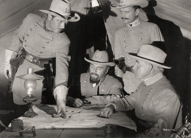 James Craig (left) & Lewis Martin (right, seated) in Drums in the Deep South - publicity still (cropped)